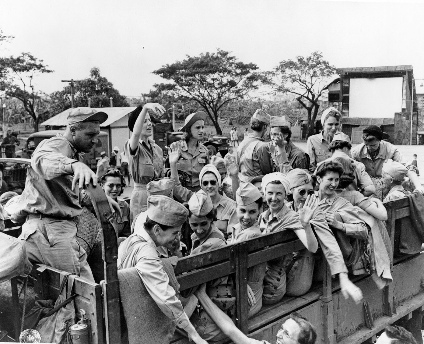 Manila during February 8-12, 1945. U.S. Army Nurses from Bataan and Corregidor, freed after three years imprisonment in Santo Tomas Interment Compound, climb into trucks as they leave Manila, Luzon, P.I., on their way home to the U.S. The nurses are wearing new uniforms given to them to replace their worn out clothes. [12 February 1945]